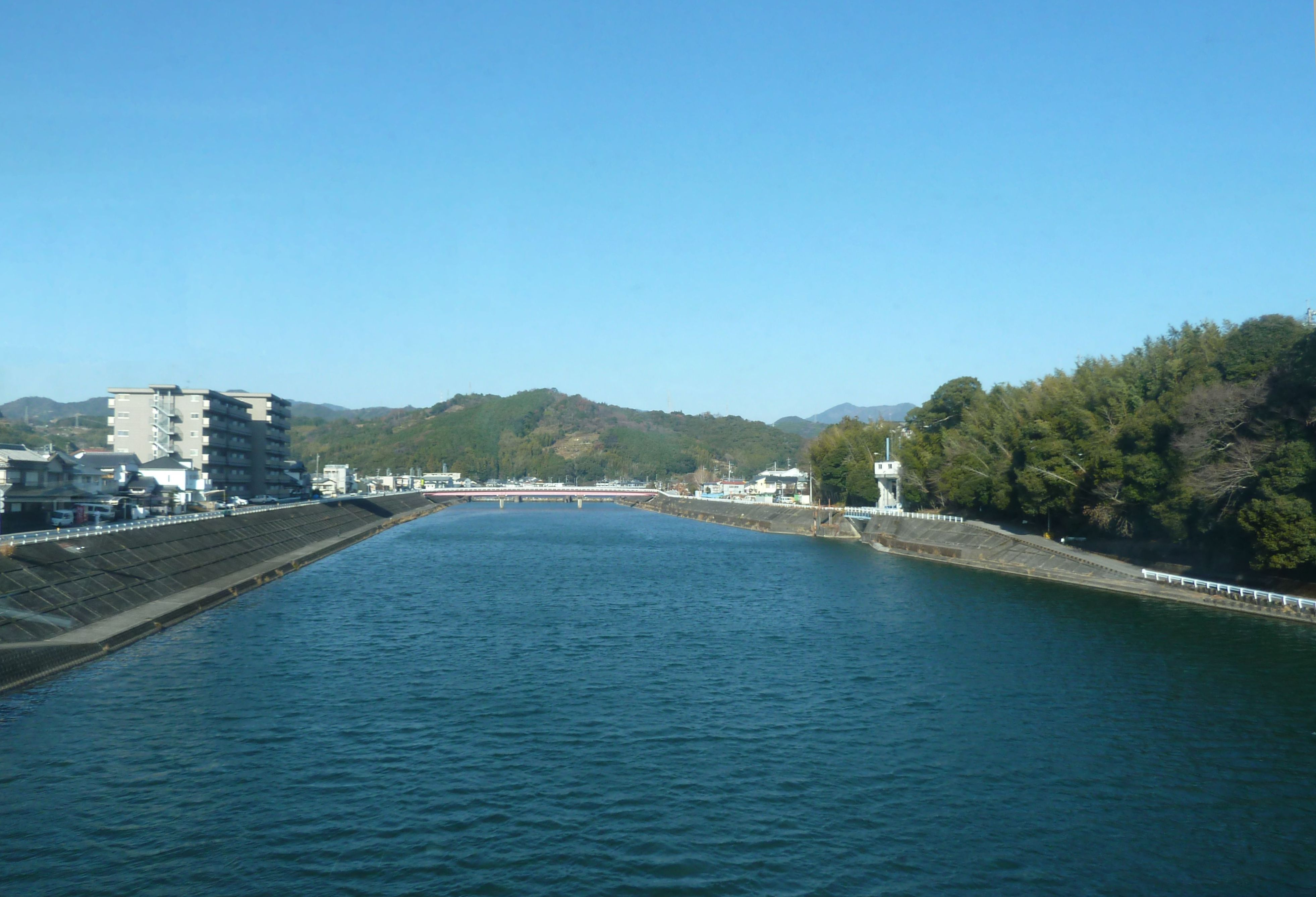 高知市郊外を流れる鏡川